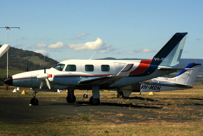 A Piper PA-31P Pressurised Navajo at Cambridge Aerodrome near Hobart in Australia.